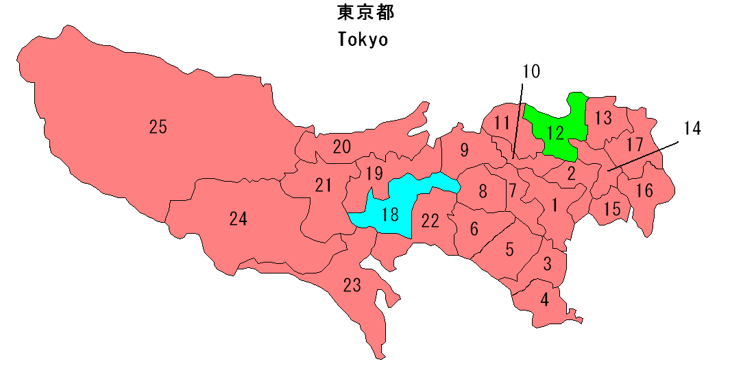 Results of single-member districts in Japan general election for Tokyo block district. LDP in red, DPJ in blue, Komeito in green, New People's Party in yellow, independent in gray.